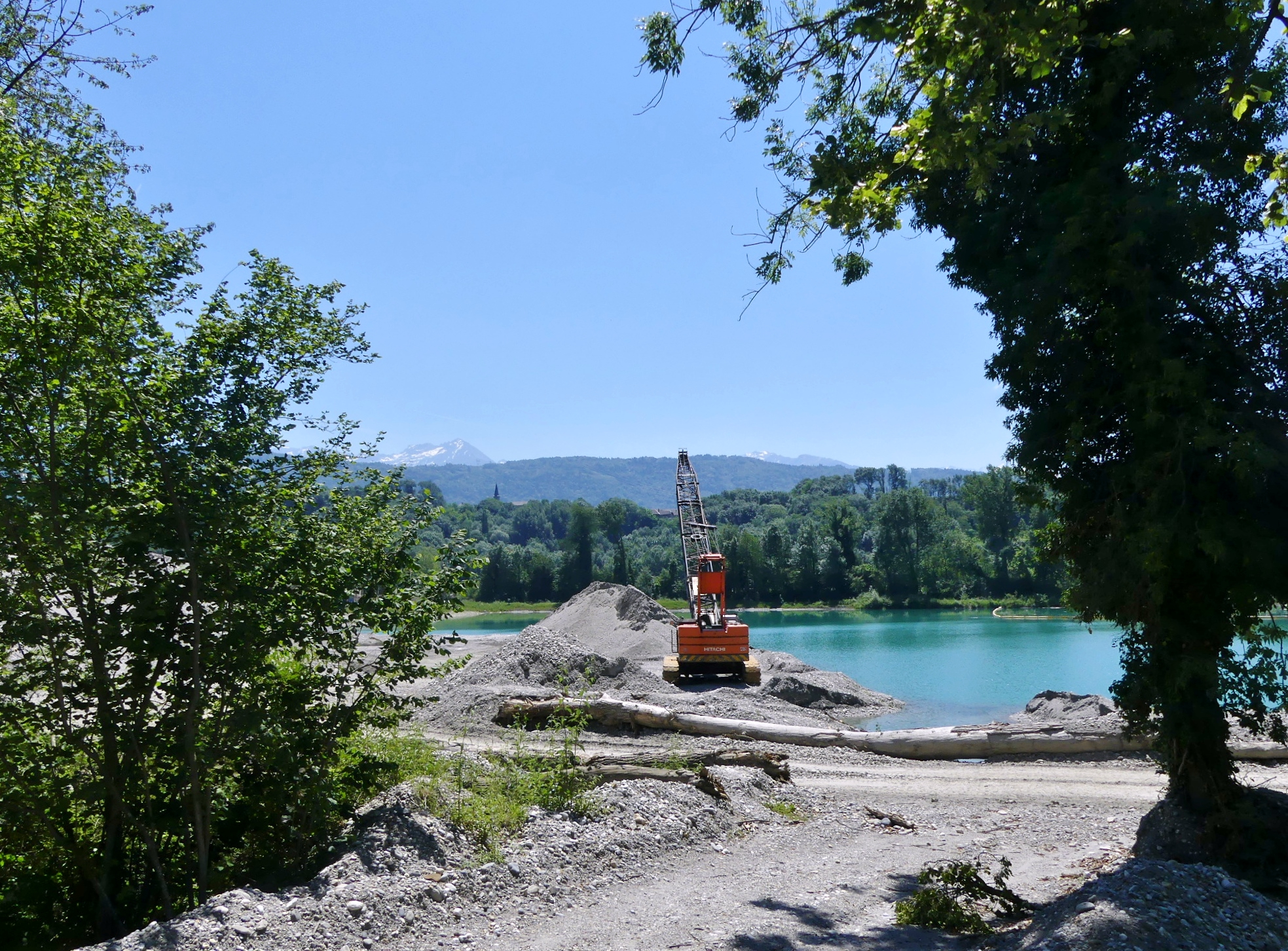 Sight of the quarry of La Chavanne on the Isère left riverbank, in Savoie, France. It is exploited by Vicat company and produces aggregates.